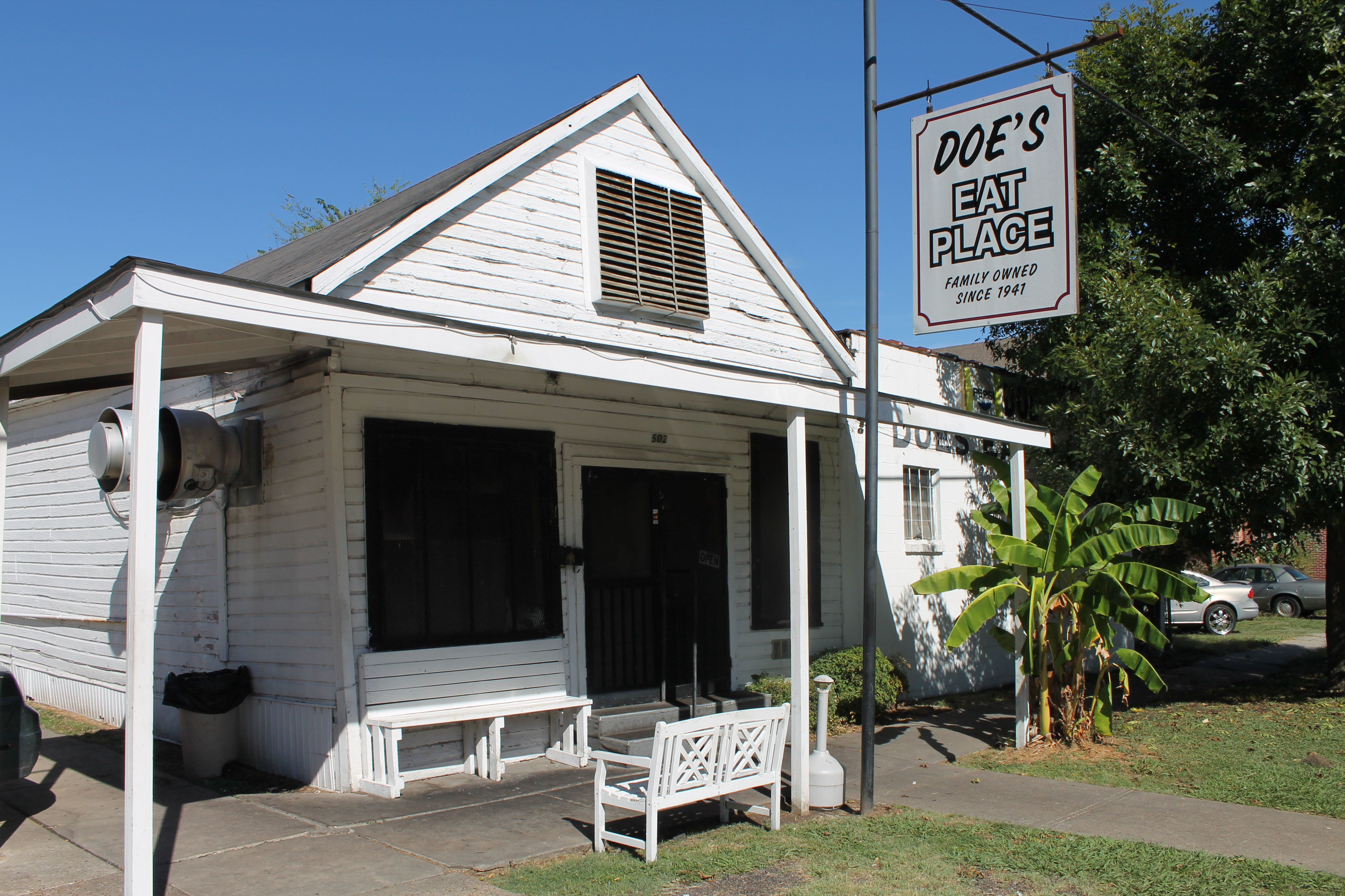 Doe's Place; Greenville, MS. Founded by Italian immigrants and family owned and operated to this day.